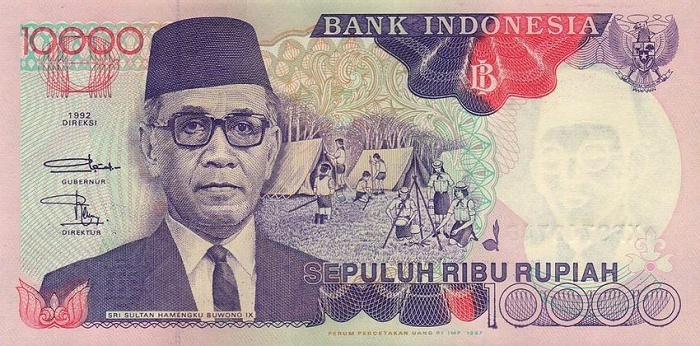 10000 rupiah banknote